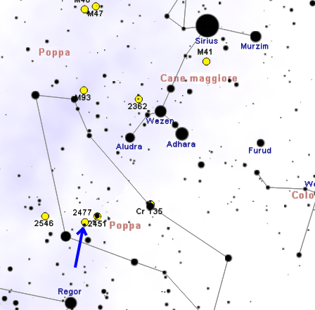 NGC2477